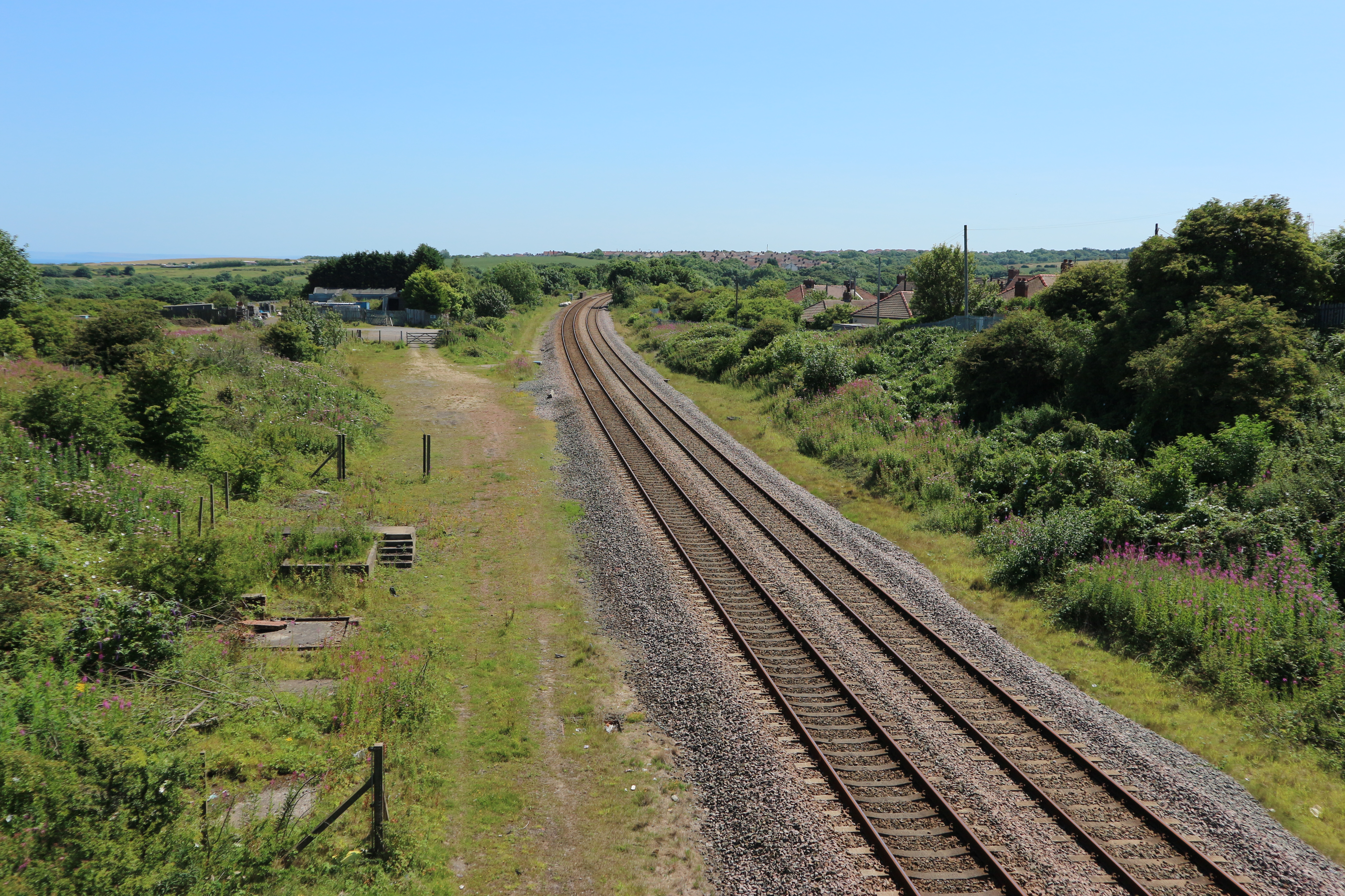 View south along the Durham Coast Line. The site of the platforms of Horden railway station are in the right of the image (on either side of the tracks) whilst the site of the station goods yard is in the left of the image. What may be the remains of the former station's goods handling facilities are visible in the left of the image (though they could be more recent pieces of railway infrastructure). Horden station closed on 4 May 1964.